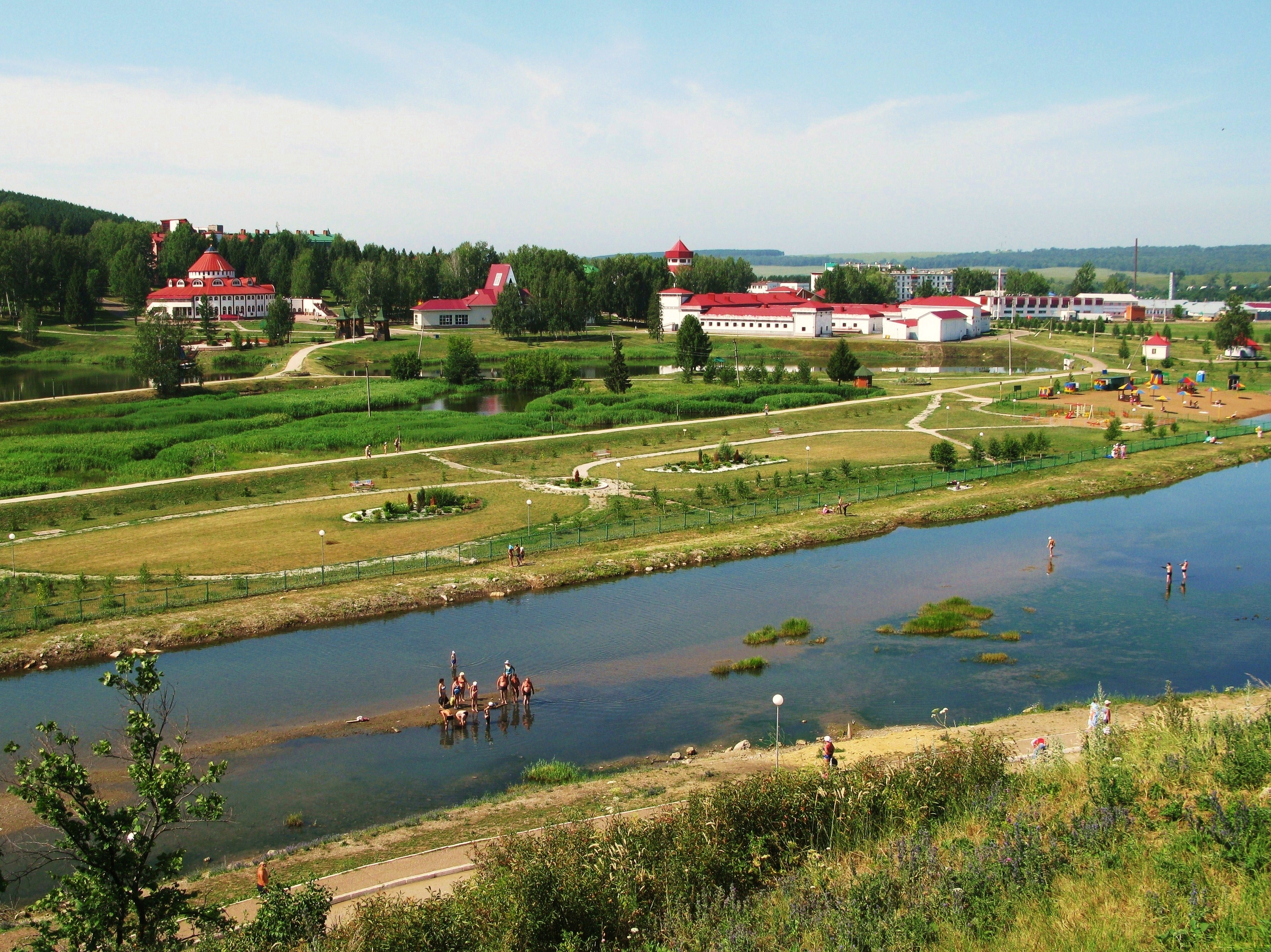 Bashkortostan